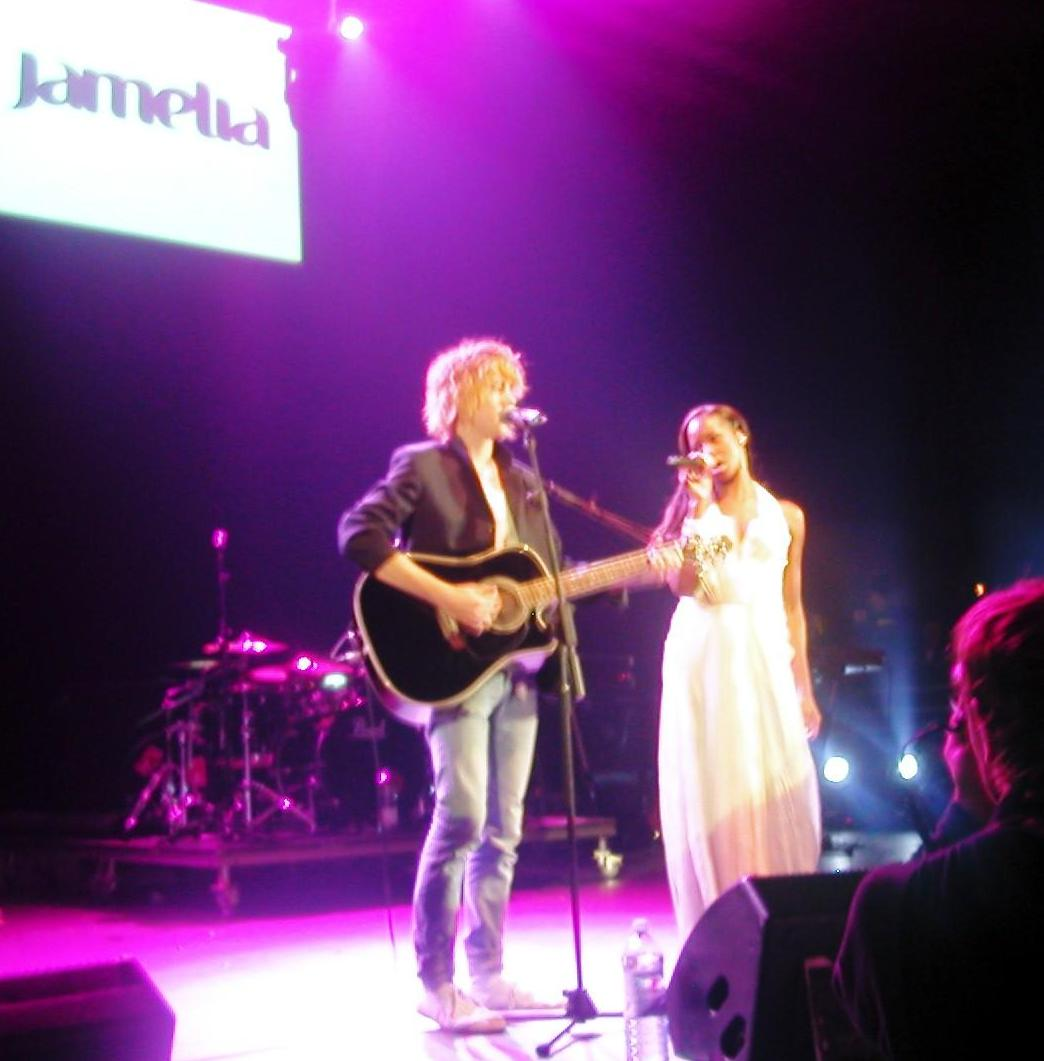 Jamelia performs a duet with Johnny Borrell of Razorlight at the Make Trade Fair live concert in London, September 2004.